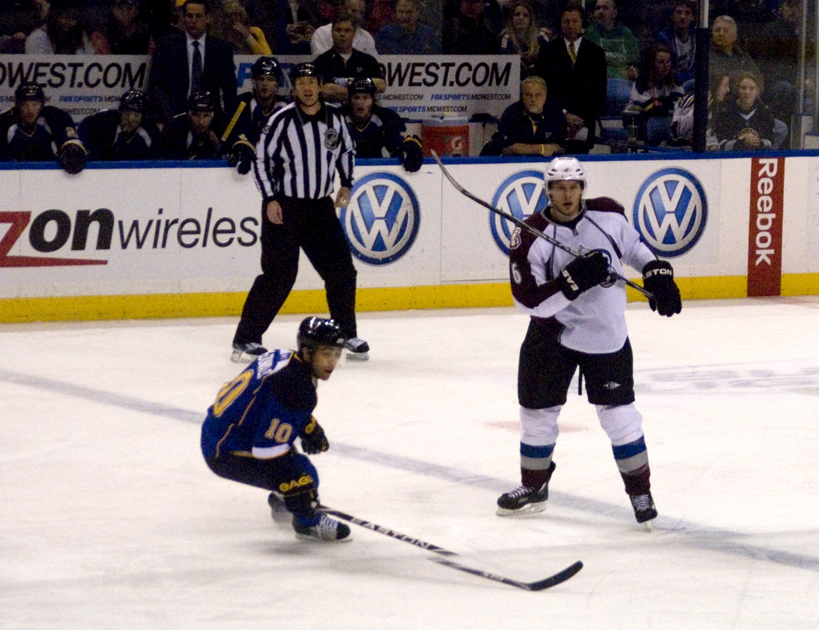 erik johnson St. Louis Blues vs. Colorado Avalanche - National Hockey League - 2010–11 NHL season. Erik Johnson and Jay McClement returned for the first time to face their former team. The Avs won. Photo taken by Sarah Connors on February 22, 2011. This photo also appears in Sarah Connors Flickr set "Blues vs. Avs, 2/22/11" (Set of 86).